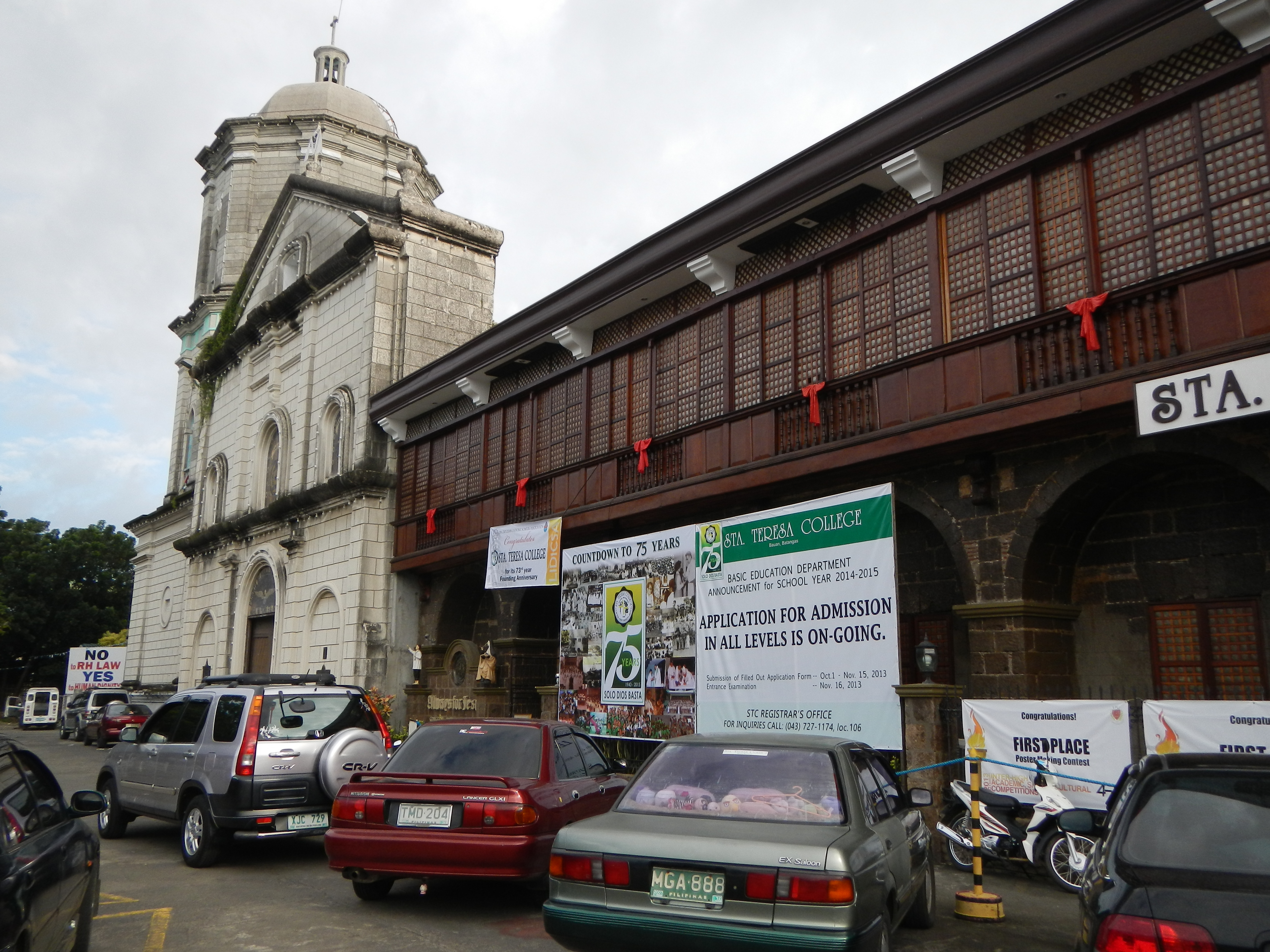 Upload Wizard photos of the - Immaculate Conception Parish Church of Bauan, Batangas - built in 1667 by Fr. Jose Rodriguez[1] Aplaya inside this historical churh is a tunnel that connects to lipa cathedral and one old catholic church in taal batangas as a secret passage to scape from the Japanesse soldiers; Coordinates: 13°47'21"N 121°0'28"E - belongs to the Roman Catholic Archdiocese of Lipa [2] Vicariate VII: Vicariate of the Holy Cros - Bauan, Batangas[3] (The Municipality of Bauan (Province of Batangas,[4] Philippines; latest census, it has a population of 79,831 people in 15,353 households; politically subdivided into 40 barangays.[5] Poblacion Coordinates: 13°47'29"N 121°0'27"EWebsite, history of Bauan.